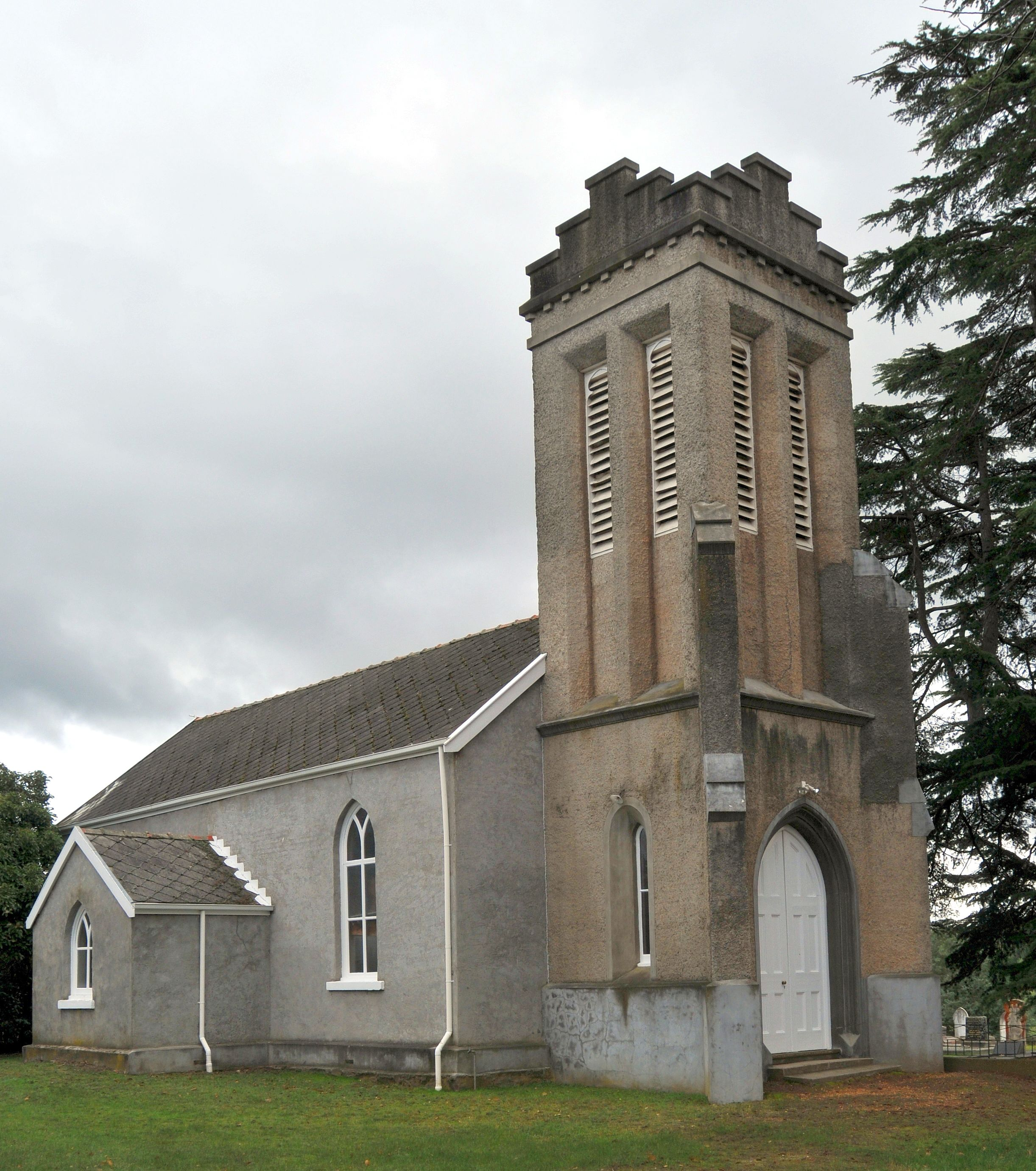 St Andrews anglican church, Carrick, Tasmania